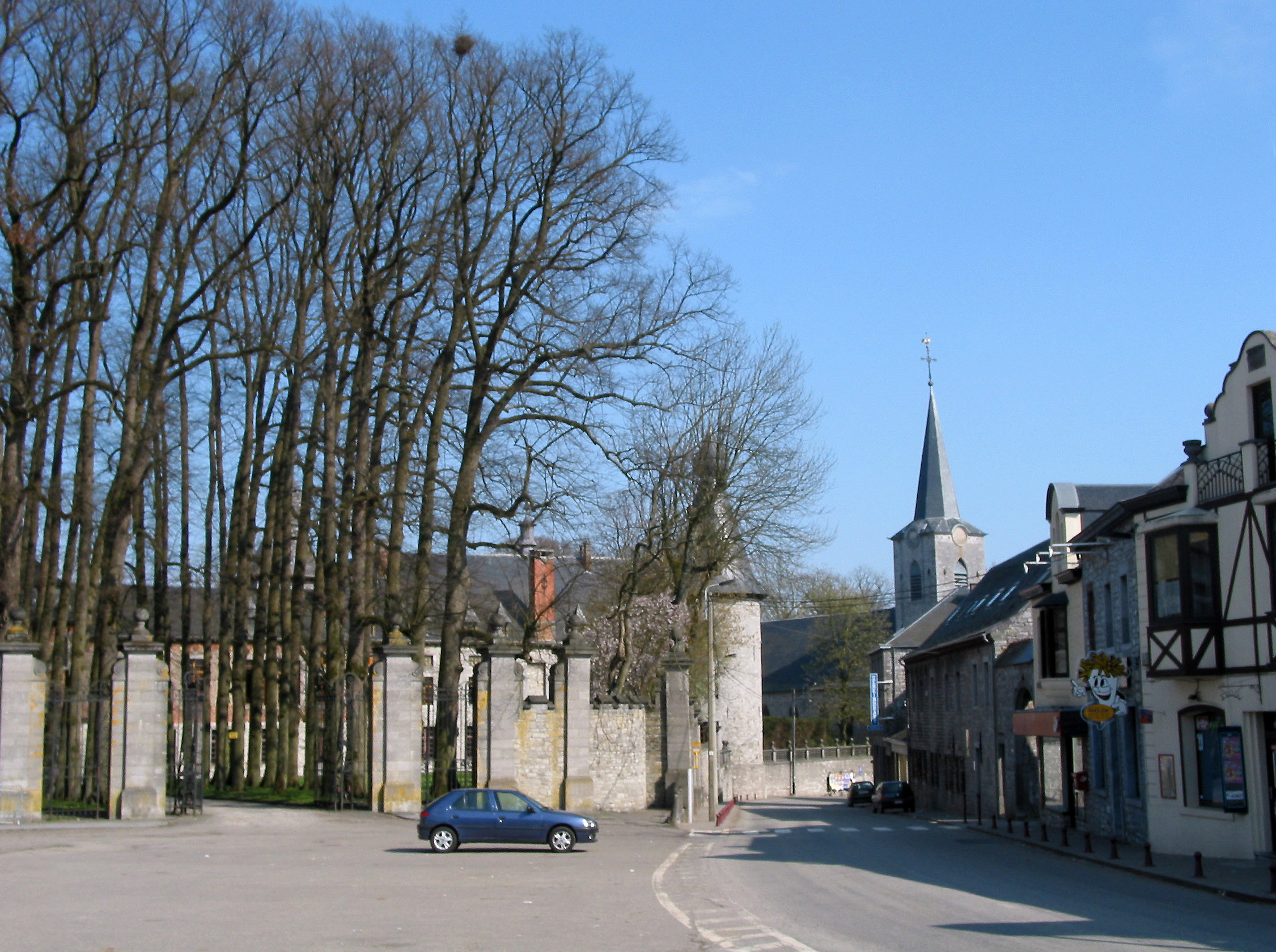 Bioul (Belgium), the village square, the entrance to the castle and church of St. Bartholomew.